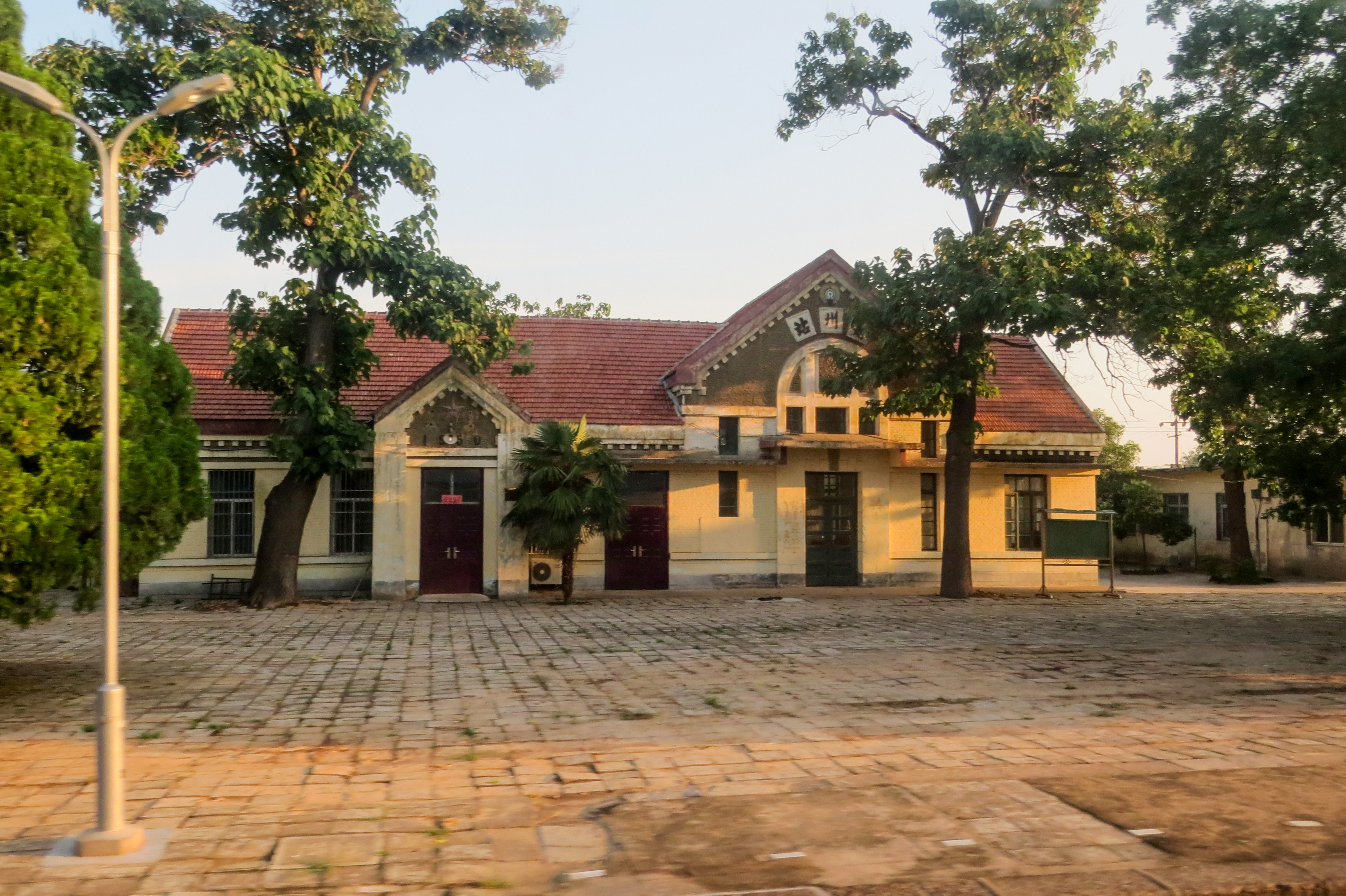 This is what "Pu" stands for.